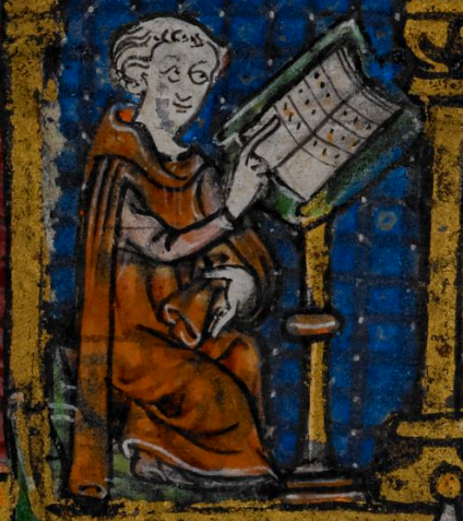 Detail from a folio (page) of the Maastricht Book of Hours (BL Stowe MS17), an illuminated manuscript mainly known for its lively depictions of animals and half-animals. The book of hours was probably made for an aristocratic lady in the Liège-Maastricht area in the first quarter of the 14th century. In the 18th century it was owned by the 1st Duke of Buckingham and Chandos, who in 1849 sold it to Lord Ashburham. In 1883 it was purchased by the British Library as part of the Stowe collection. Folio f255v depicts scenes from the life of Theophilus of Adana (who made a pact with the devil). This detail shows him as an archdeacon doing his ecclesiastic duties.